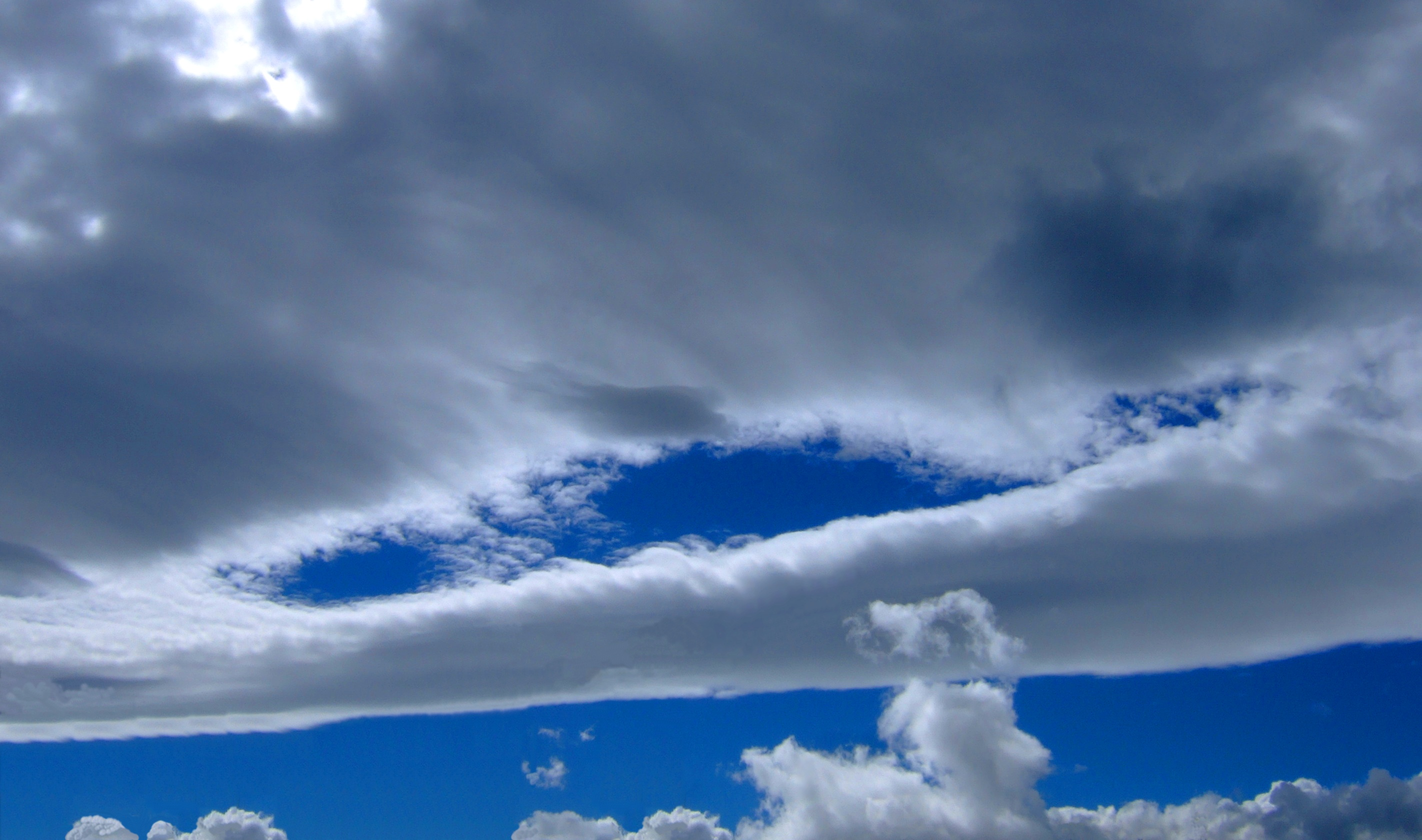 Foehn clouds in Geneva, Switzerland photographed on 24 July, 2007